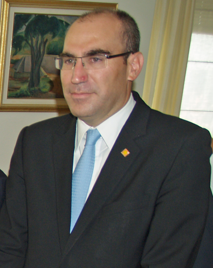 Breakfast honoring Israeli literary legend Amos Oz, on September 24, 2008 on the Upper East Side of Manhattan in New York City. To learn more about my work, please visit my website.